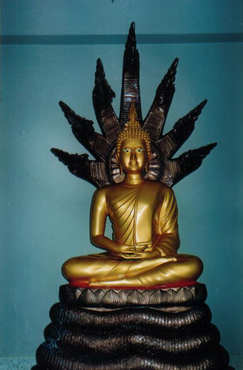 Description: statue of sitting buddha Location: Rangamati, Bangladesh Author: Muntasir Alam Source: The picture was taken by Muntasir Alam